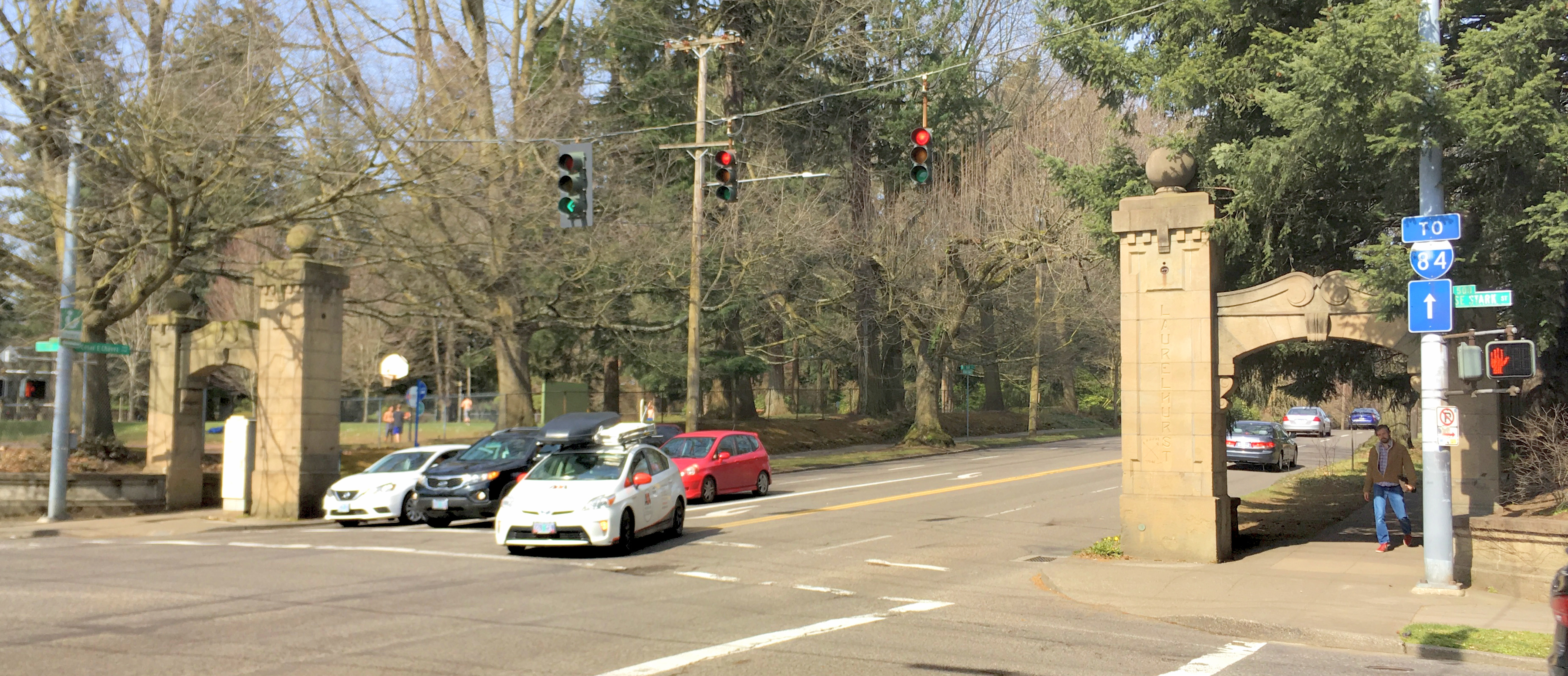 Historic ornamental gates flanking Southeast César E. Chávez Boulevard at Southeast Stark Street, marking the southern boundary of the Laurelhurst neighborhood in Portland, Oregon, United States.